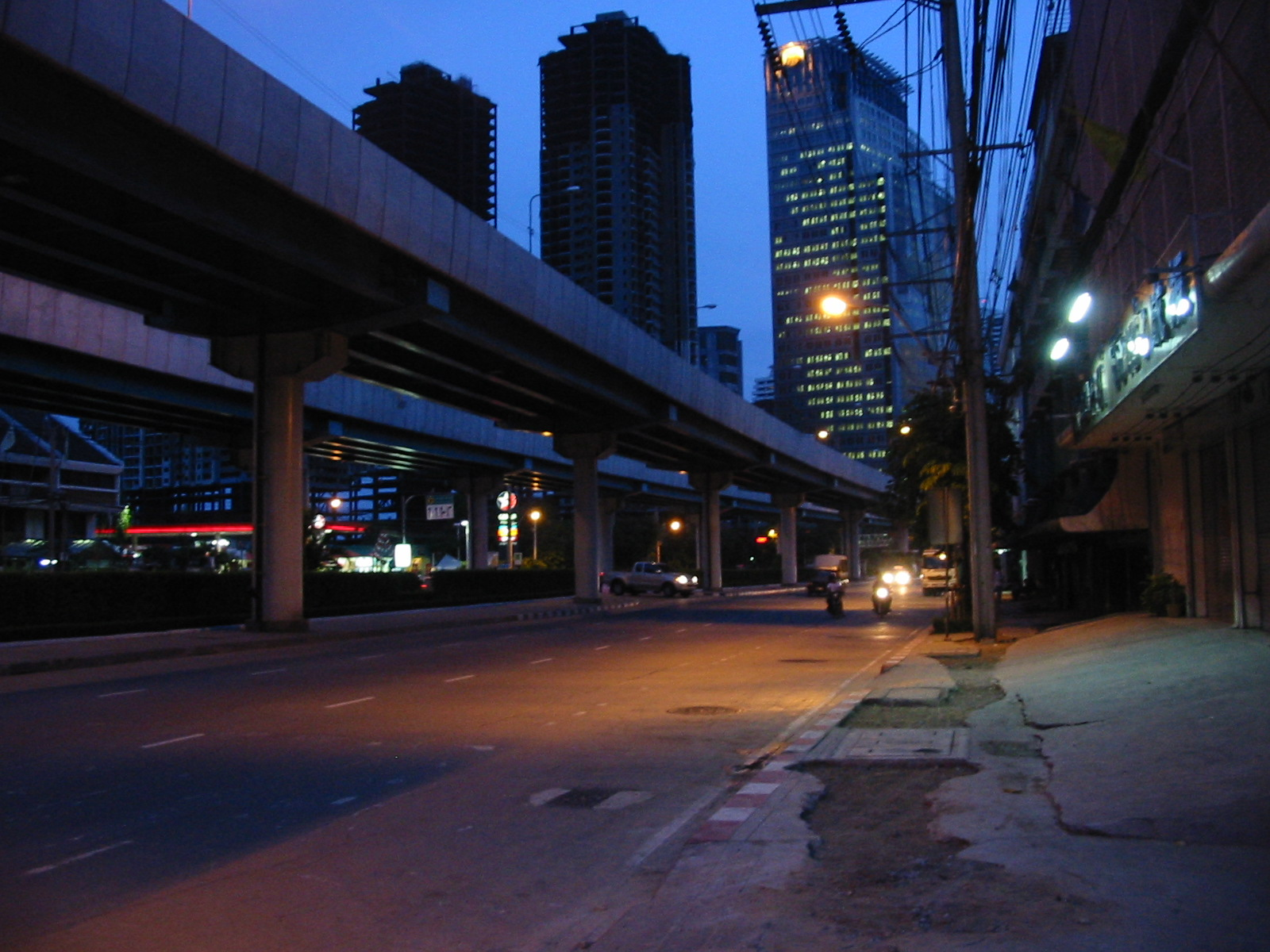 Thanon Rama III